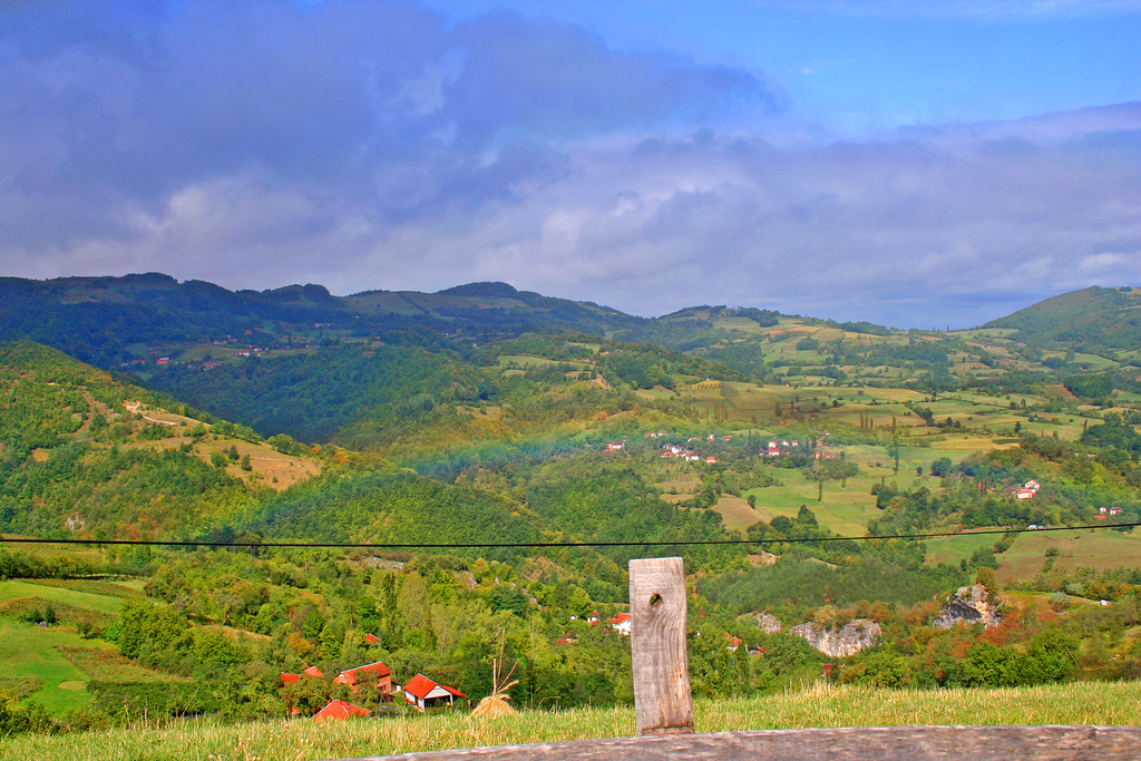 taken of a rainbow on the Serbia /Bosnia border. Taken from michael tyler -geoblog.